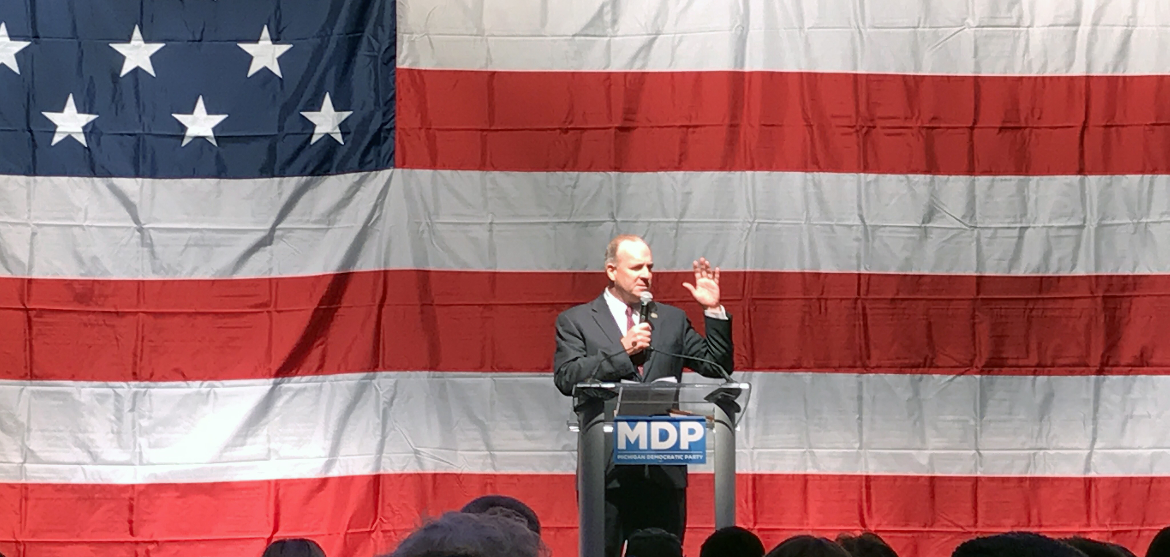 Dan Kildee speaking at 2017 Michigan Democratic Party Spring State Convention at Cobo Center in Detroit, Michigan